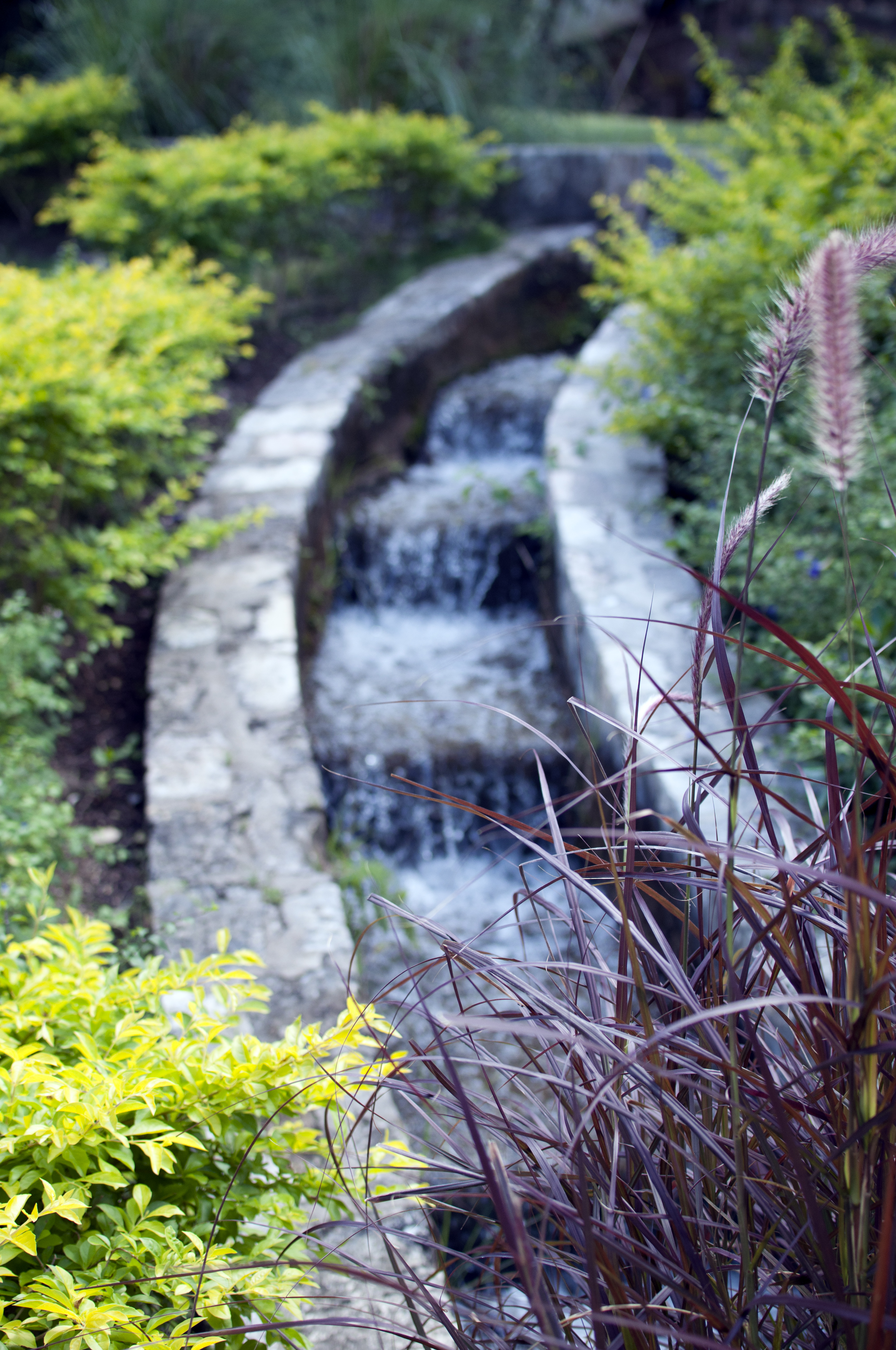 Rose Hall Spillway Montego Bay Jamaica, Photo: D Ramey Logan